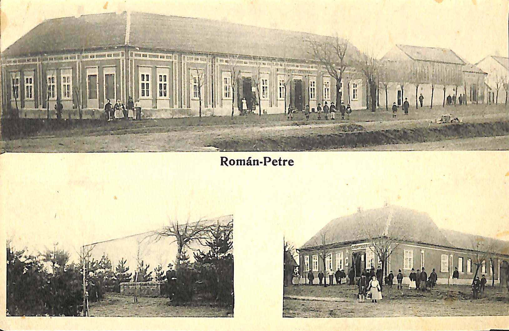 Vladimirovac, the former name Roman-Petre